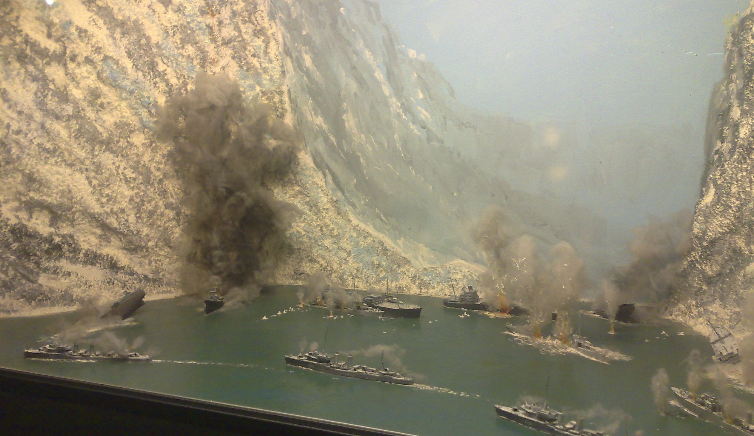 Battle of Narvik. British destroyers damage German fleet